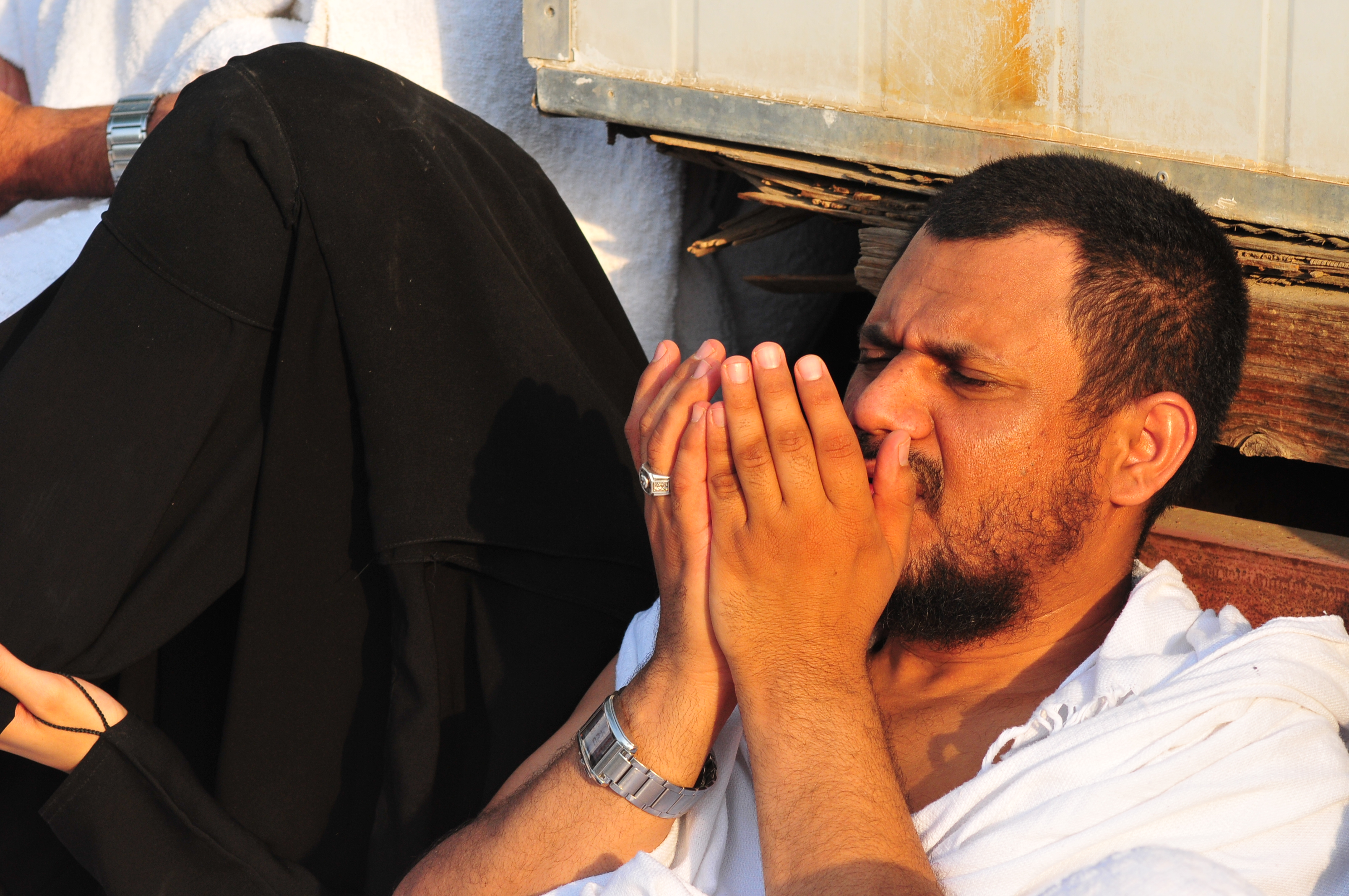 Pilgrims